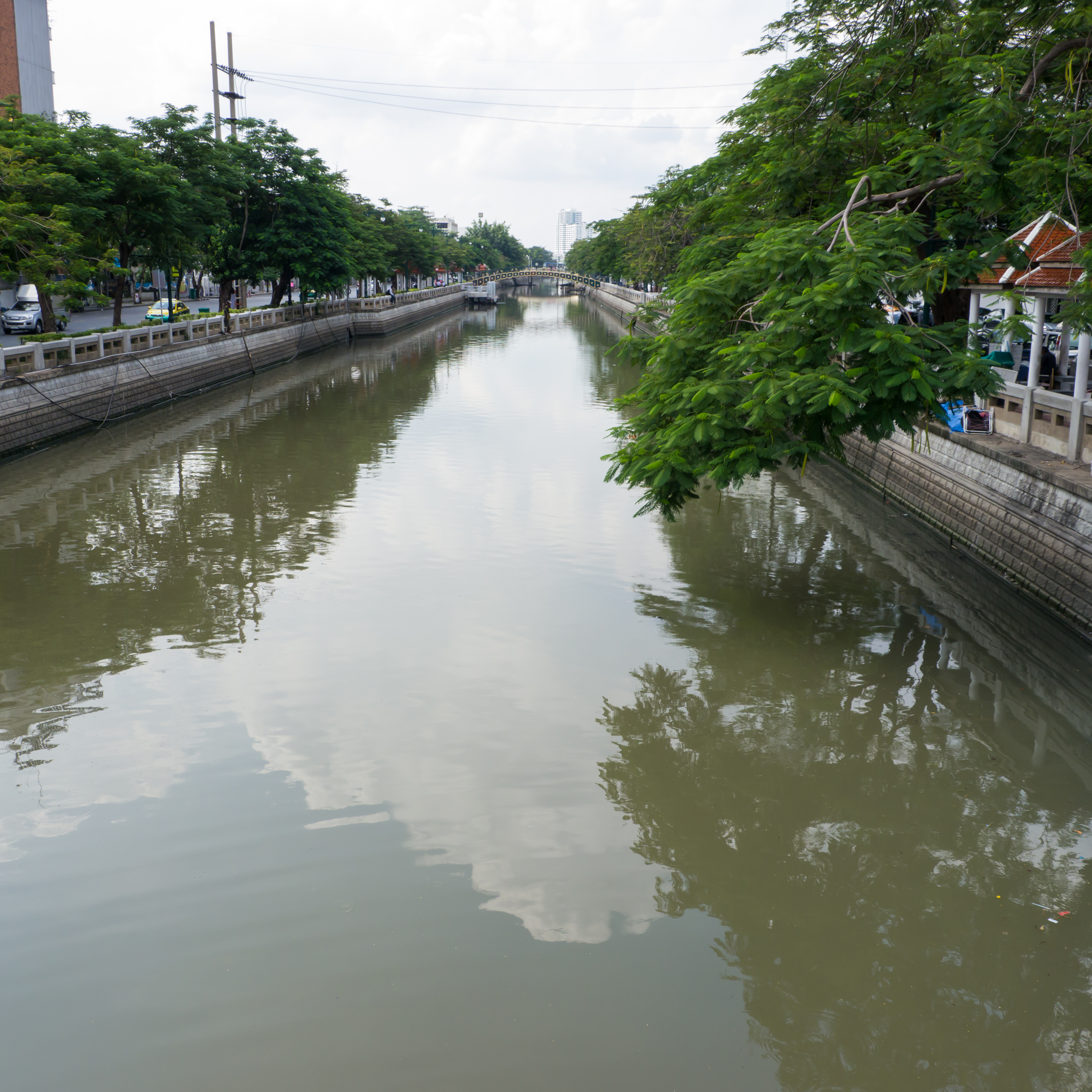 คลองผดุงกรุงเกษม